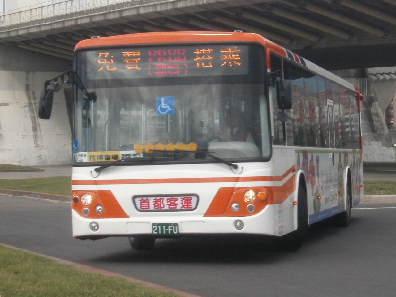 Expo Bus Line3